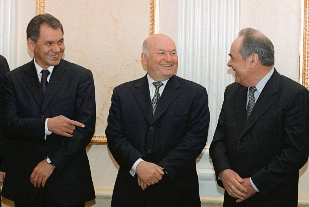 “Heads of the United Russia party”. Members of the United Russia Supreme Council (left to right): Emergencies Minister Sergei Shoigu, Moscow Mayor Yury Luzhkov and Tatarstan’s President Mintimer Shaimiyev meeting with Russian President Vladimir Putin in the Kremlin.